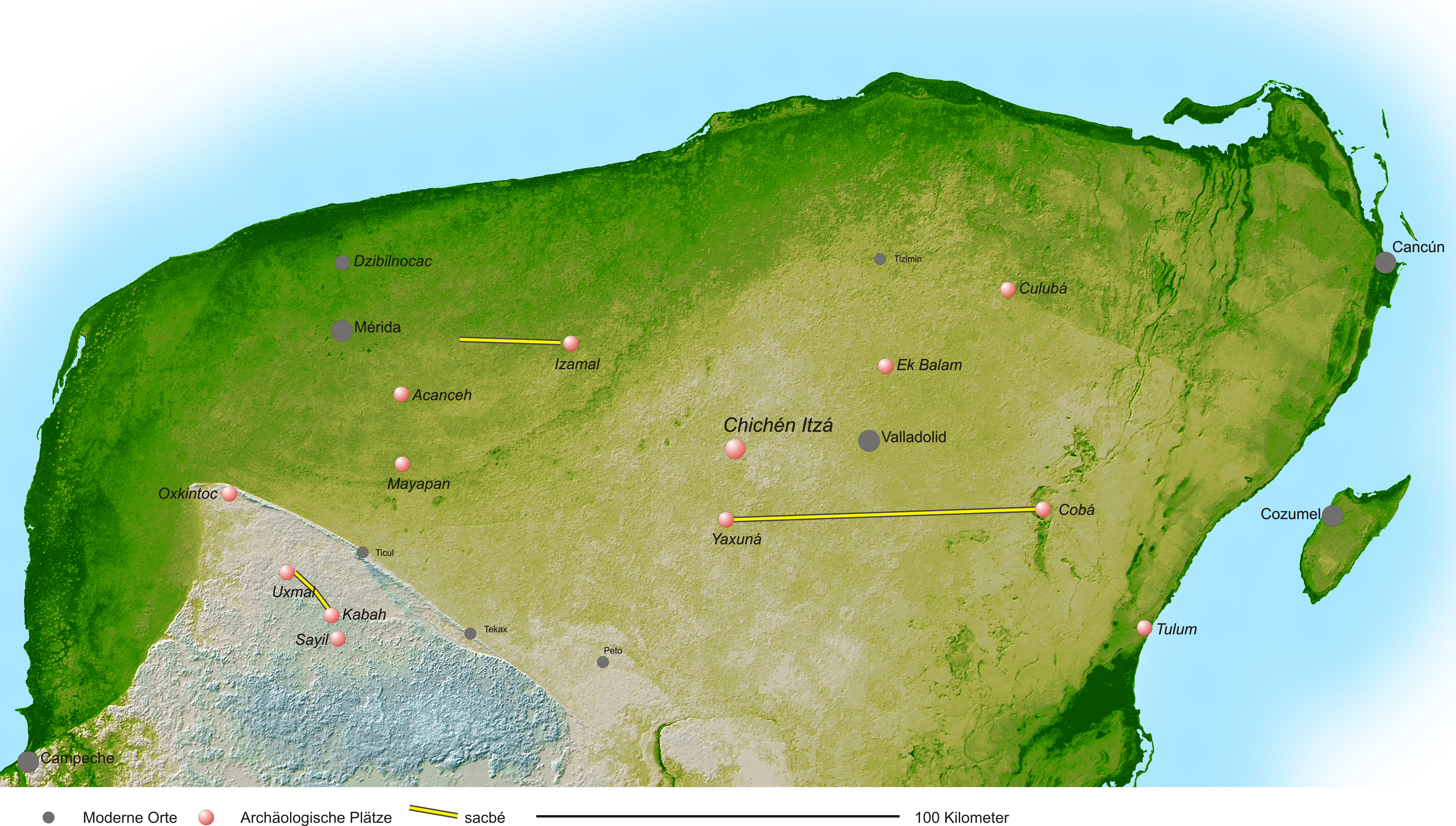 Chichen Itza, Yucatan, Mexico: location